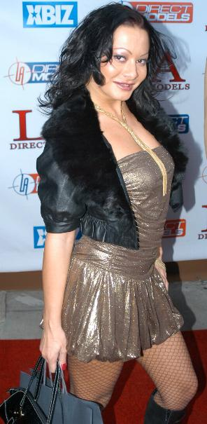 Jan 7 2007: L.A. Direct Models Party.